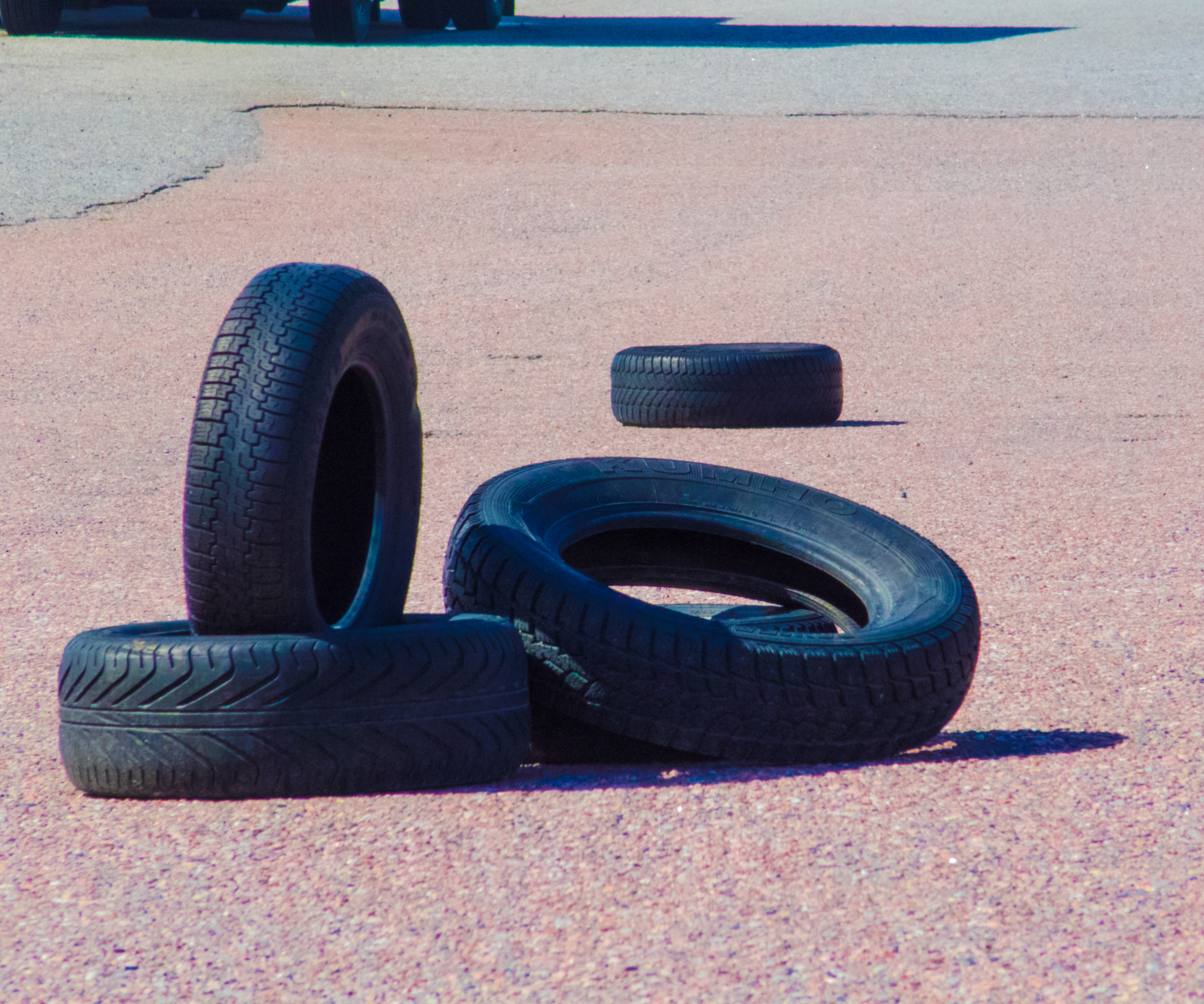 Abandoned old tyres arranged on asphalt.